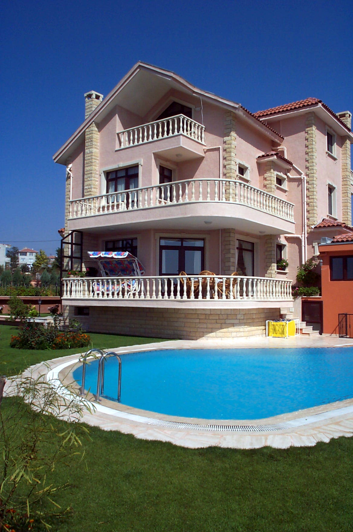 Istanbul. Building with swimming pool